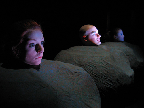 This is a photograph from an SMSU Theatre Program production of 'Play' by Samuel Beckett in their spring mainstage production entitled 'Six Pack'. From left: Nissa Nordland, E.A. Eichenlaub, and LeeAnn Libnoch. Director of this production -Nadine Purvis Schmidt. Scene and Lighting Designer-Ray Oster